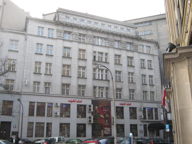 Zgoda 11, Warsaw, Poland.